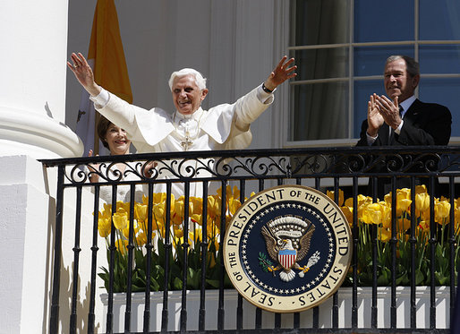 President George W. Bush and Laura Bush applaud as Pope Benedict XVI acknowledges being sung happy birthday by the thousands of guests Wednesday, April 16, 2008, at his welcoming ceremony on the South Lawn of the White House.